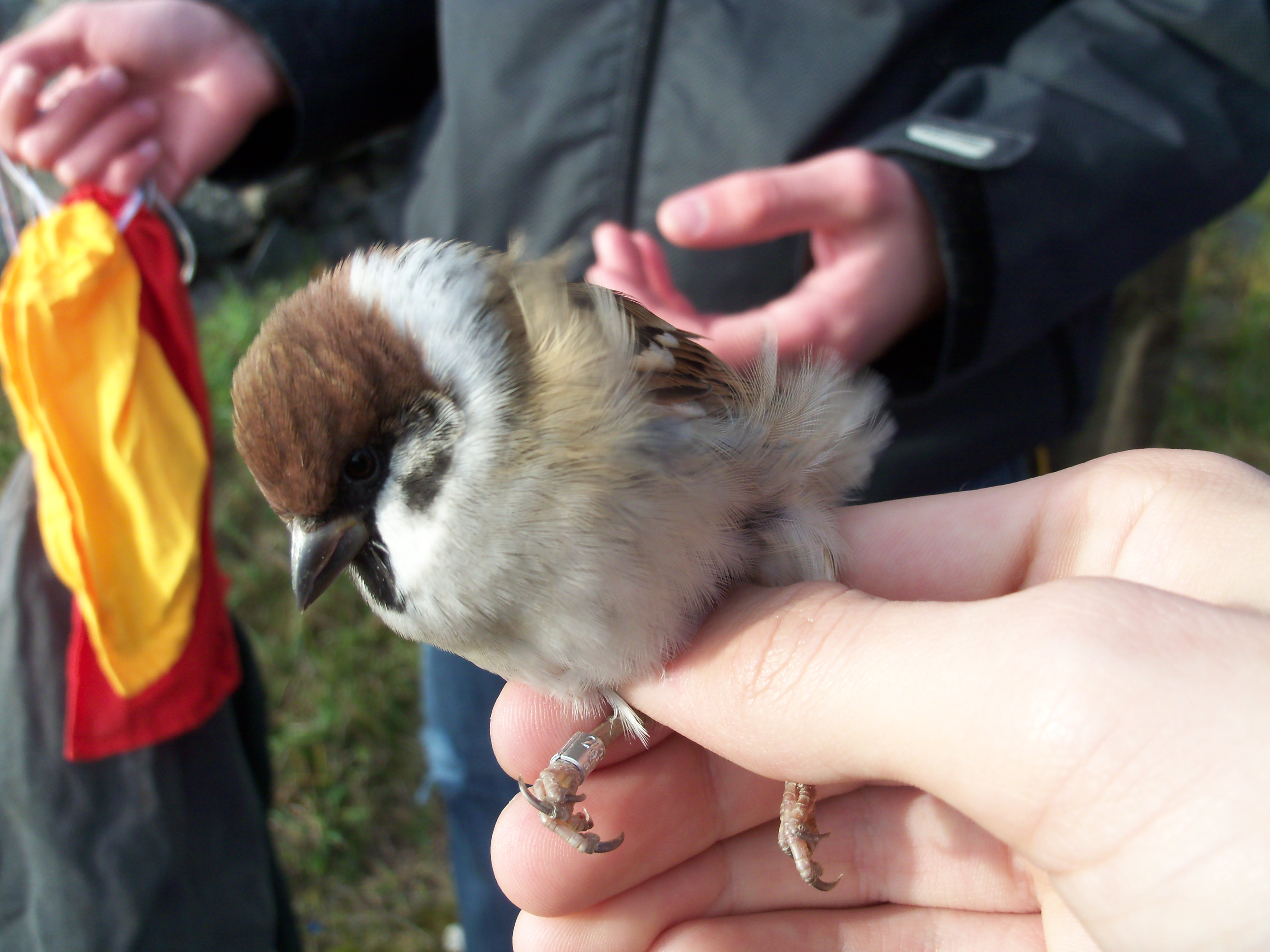 A Eurasian Tree Sparrow (Passer montanus) ringed at Landsort Lighthouse on the south cape of the island Öja (Landsort), south of Nynäshamn in Södermanland in Stockholm County in Sweden. Landsort Bird Observatory is responsible for the ringing.